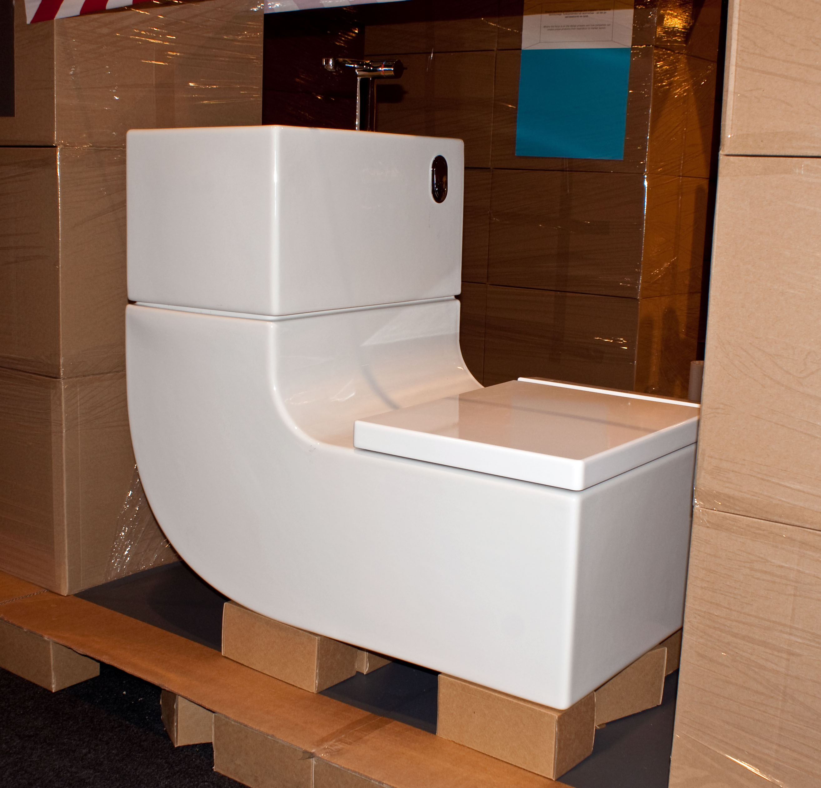 W+W (Washbasin+Watercloset) by Roca. "21 design stories" – exhibition at Institute of Industrial Design in Warsaw.